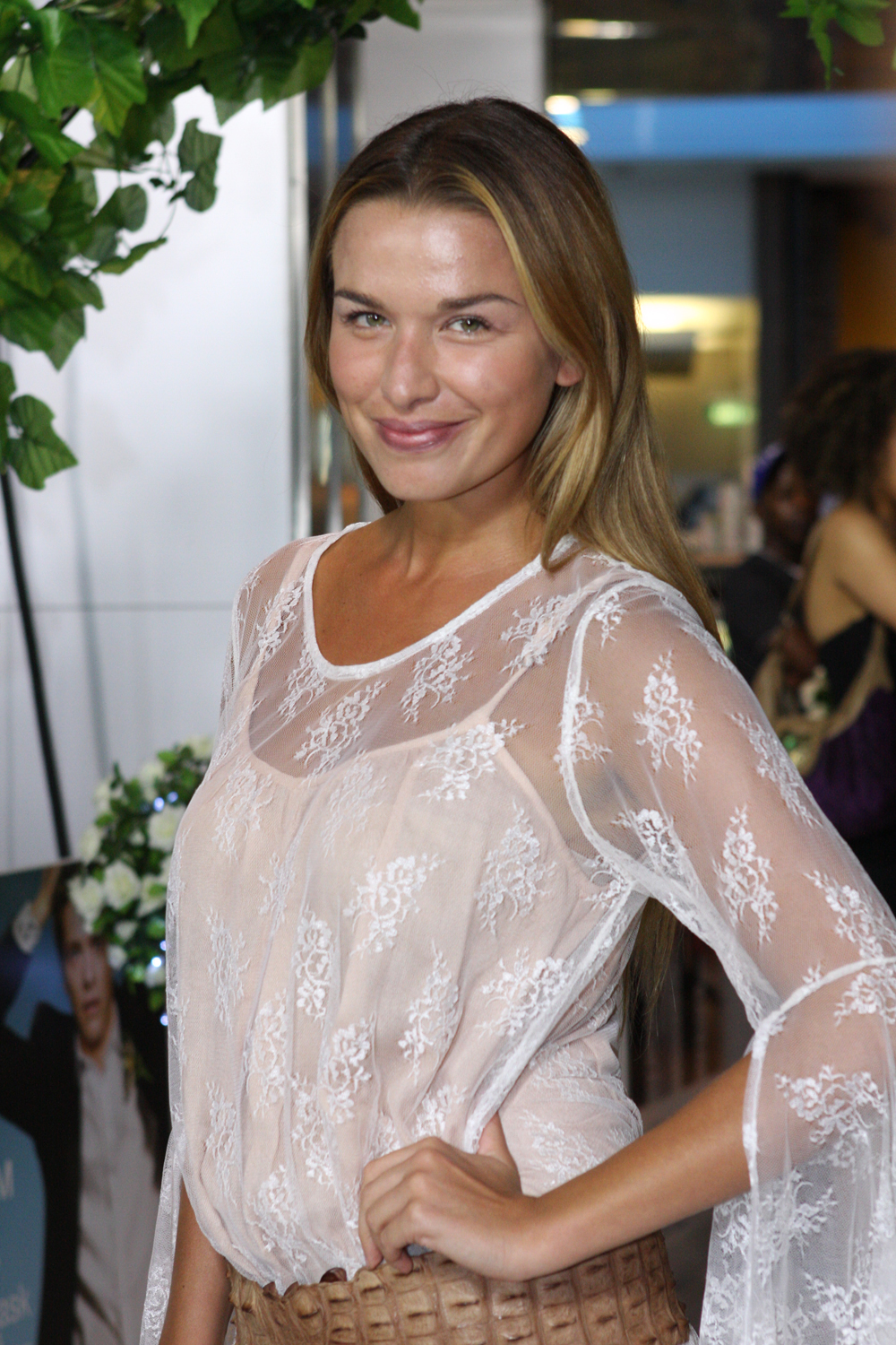 A Few Best Men Red Carpet Movie Premiere In Sydney, Australia A Few Best Men enjoyed its Sydney red carpet premiere earlier this evening at Bondi Junction's Event Cinema. In essence, it's a a comedy about a groom and his three best men who travel to the Australian outback for a wedding. The flick has numerous Sydney based media men and women tipping that this may be just the start of a reinvigoration of Olivia Newton-John's acting career, but its really too early to know for sure. Maybe O-N-J and her agent know something we don't. Twilight Eclipse hunk Xavier Samuel stars as the film's hapless bridegroom. British thespians Kris Marshall (Death At A Funeral) Kevin Bishop (Spanish Apartment), and Australian comedy star Rebel Wilson was there, as was Laura Brent (Chronicles of Narnia), Steve Le Marquand (Beneath Hill 60) and Tangle actor Tim Draxl. Even local MP Malcolm Turnbull and wife Lucy showed up in support. The flick, which was filmed in Sydney and the Blue Mountains, is hoped to be a return to form for Elliott, who has had mixed success since his 1994 smash hit The Adventures of Priscilla: Queen of the Desert. It's quite an unlikely acting platform for Newton-John, who many film industry commentators say her last decent film role was alongside John Travolta in Two of a Kind back in 1983. Elliott told the media that the Aussie singer/actress has fitted in well with the rest of the cast. "She's great. Everyone's coming together really well and she's really getting into it," he said. A Few Best Men opens in cinemas nationally on January 26, 2012. Director: Stephan Elliott Writers: Dean Craig Stars: Rebel Wilson, Olivia Newton-John and Xavier Samuel Websites A Few Best Men official website Icon Film Distribution Event Cinemas Nix Co Eva Rinaldi Photography Flickr Eva Rinaldi Photography Splash News Music News Australia